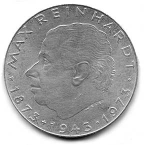 Coin